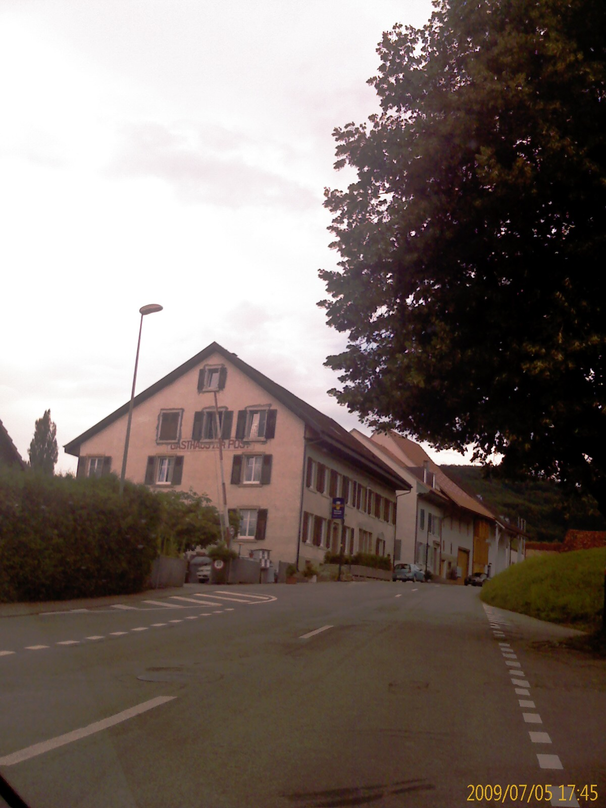 Hotel Post at Rickenbach, canton of Basel-Country, SwitzerlandEsperanto: Hotelo Poŝto en Rickenbach, Kantono Bazelo Kampara, Svislando